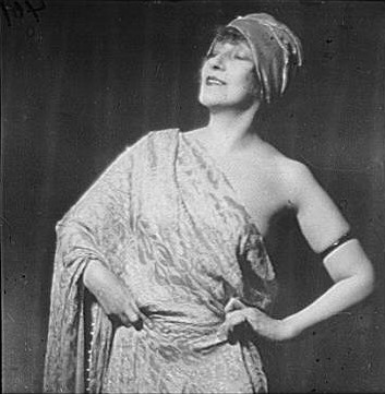 Title Portrait photograph of Georgette Leblanc Contributor Names Genthe, Arnold, 1869-1942, photographer Created / Published between 1921 and 1942; from a negative taken 1921 Apr. 11. Subject Headings - Leblanc, Georgette--1869-1941. Format Headings Lantern slides. Portrait photographs. Notes - Title devised. - Purchase; Genthe Estate; 1942 or 1943. - ID: LC-G401-3521-B; 1921 Apr. 11 Medium 1 slide : lantern ; 4 x 5 in. or smaller. Call Number/Physical Location LC-G4085- 0401 [P&P]